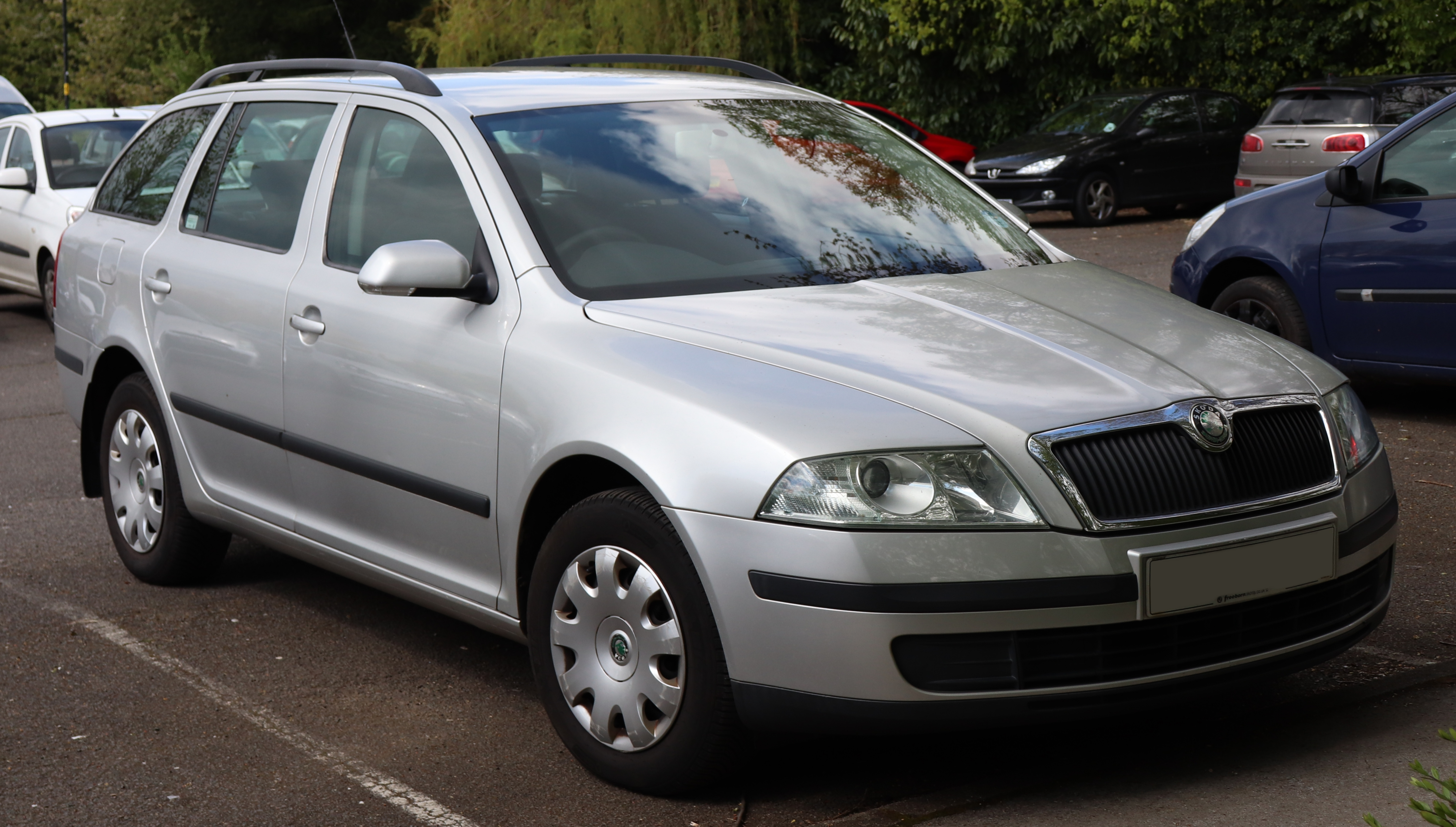 2005 Skoda Octavia Ambiente TDi Estate 2.0 Front Taken in Leamington Spa